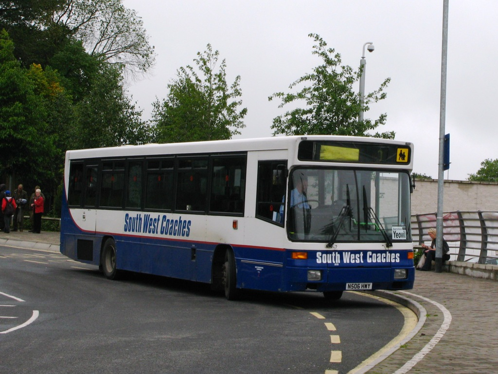 N506HWY is an Alexander Strider bus with a Volvo B10B chassis. It is seen in service with South West Coaches at Shepton Mallet, Somerset.